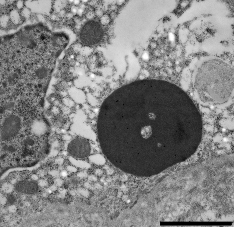 TEM image of an inclusion body within the kidney of a Boa constrictor with inclusion body disaese. Immuno-gold labeling, polyclonal mouse anti-IBD-protein, bar 2 µm